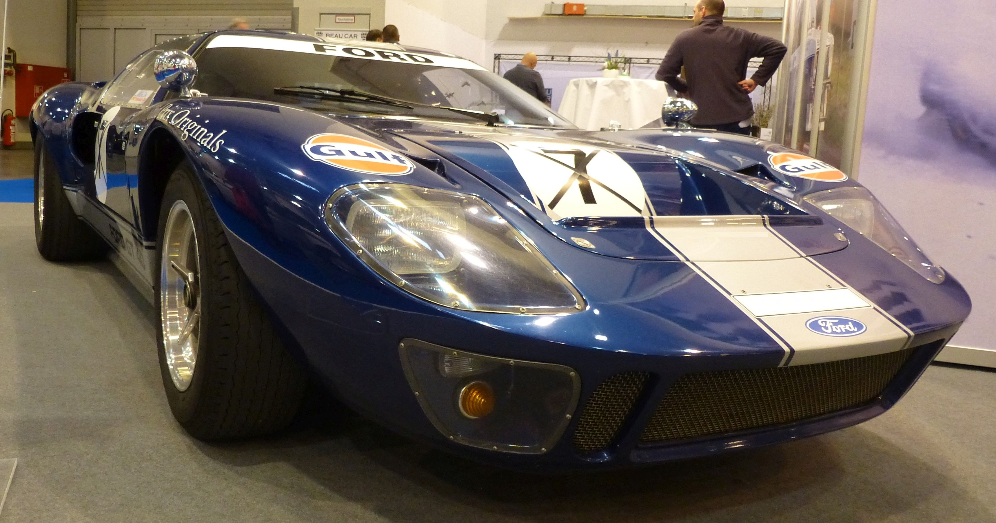 CAV